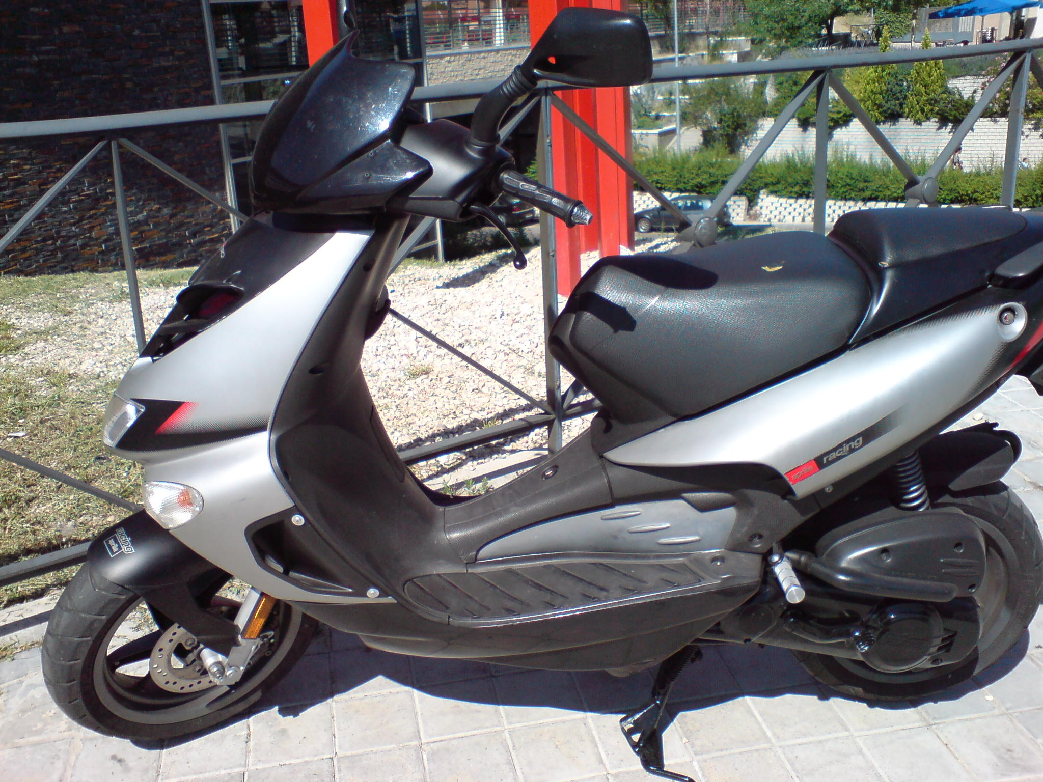 Aprilia Racing SR5